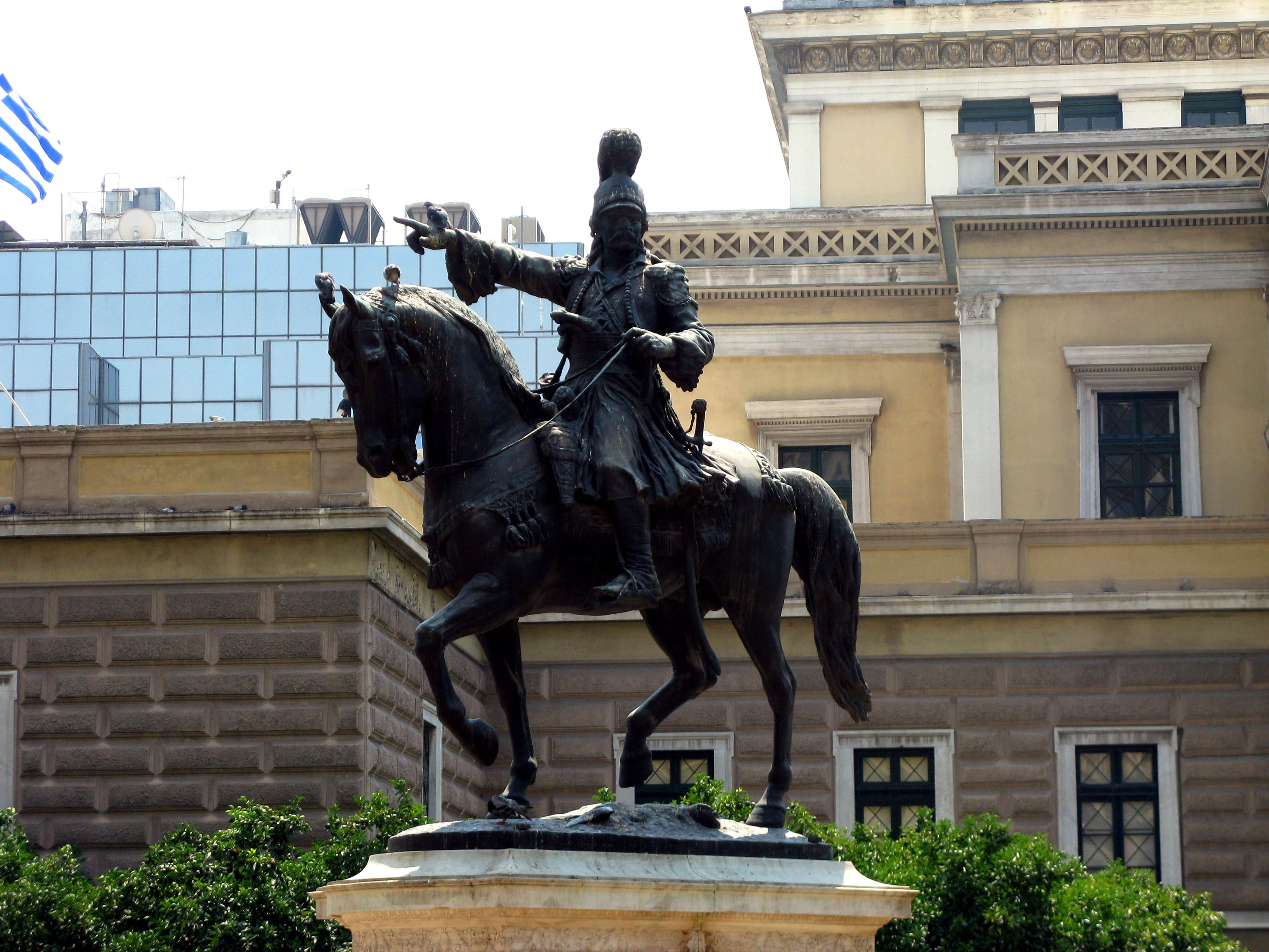 Bronze statue of Theodoros Kolokotronis in Athens